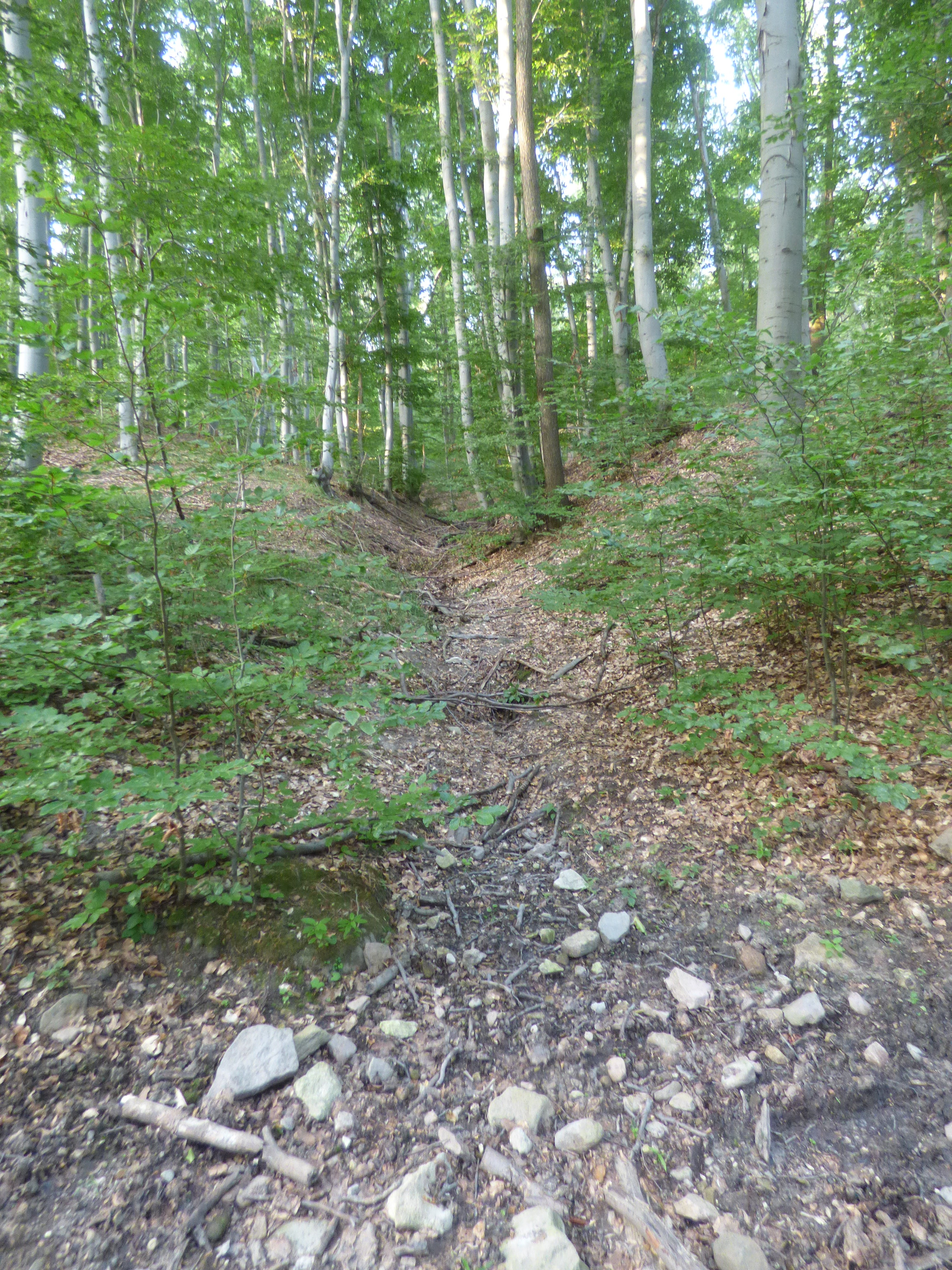 Az egyik bölcső-hegyi forrás (valószínűleg a Kékvízű-forrás) vízmosása a sárga jelzésű turistaút felől nézve